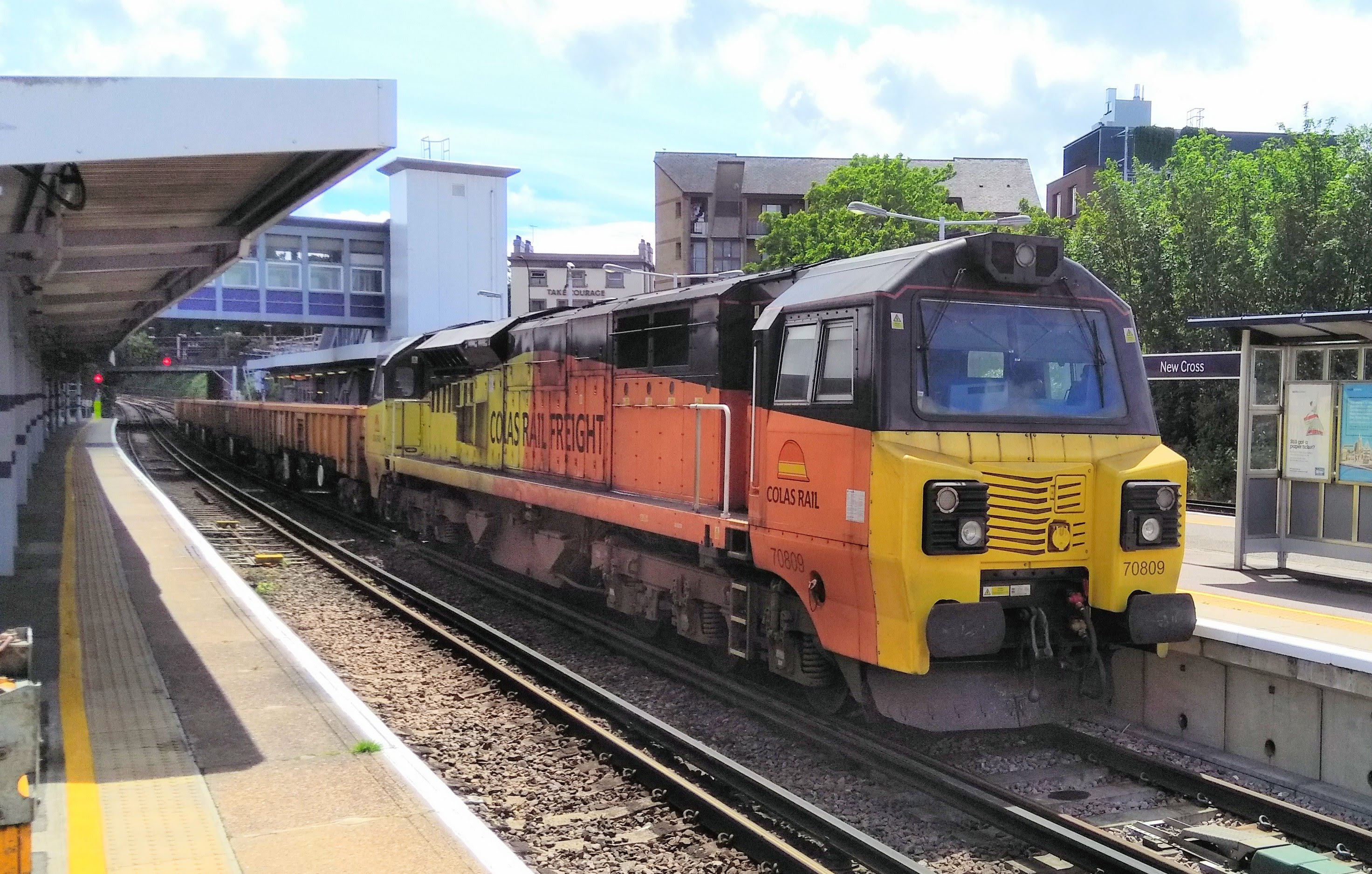 Colas Rail Class 70 locomotive 70809 at New Cross station